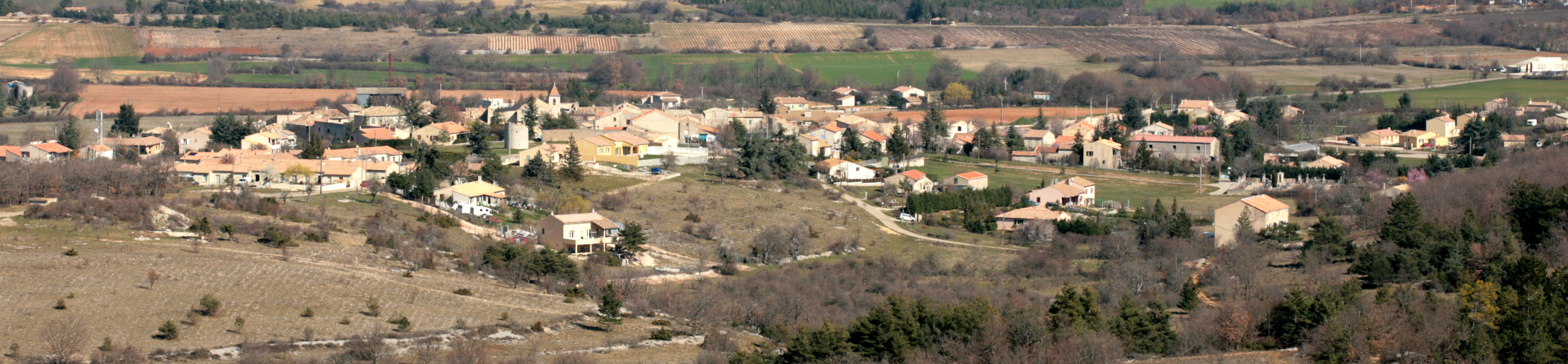 the village of Saint-Christol, France